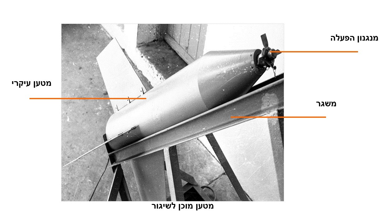 Mit'an 90 rocket